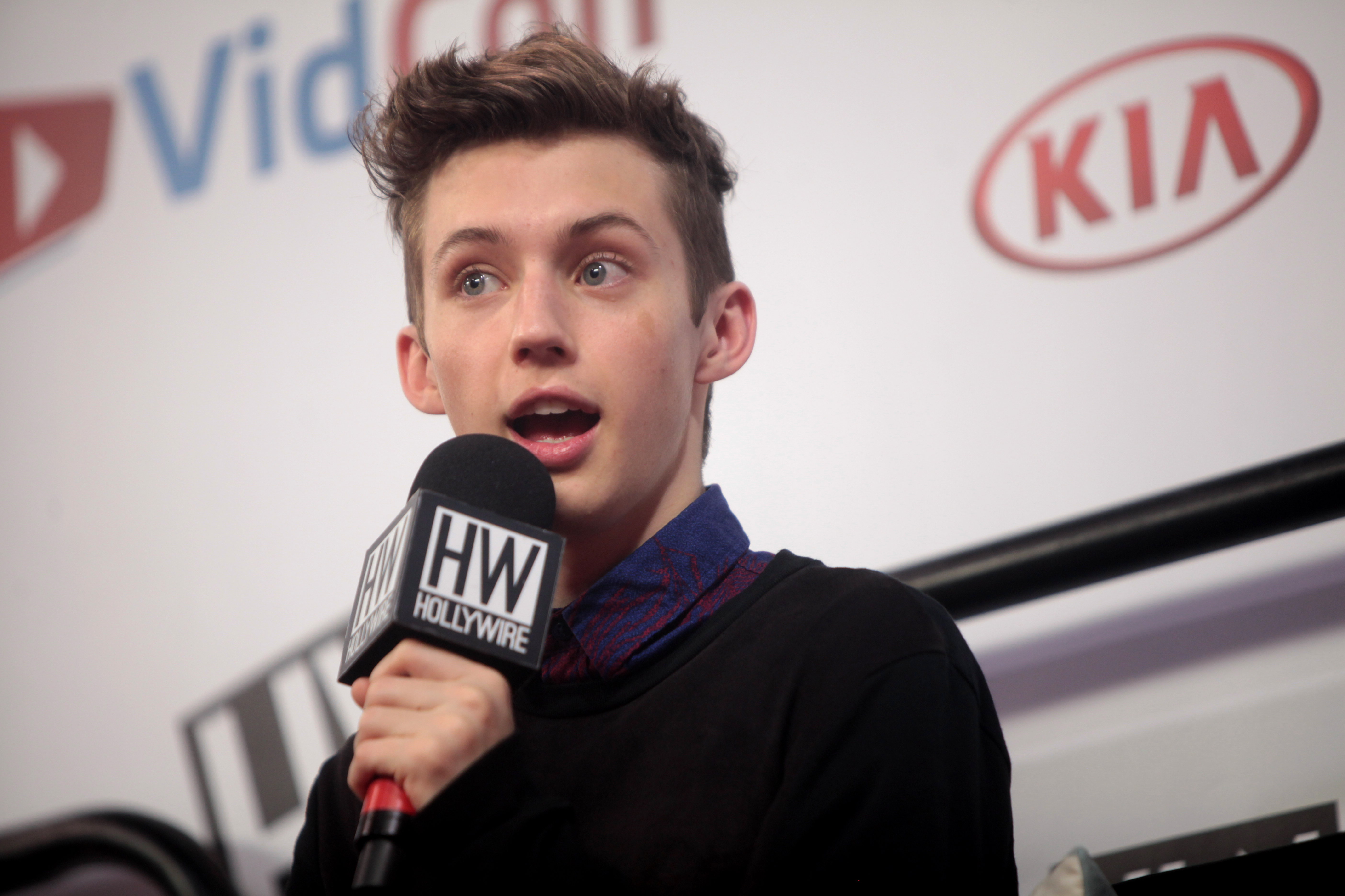 Troye Sivan speaking at the 2014 VidCon at the Anaheim Convention Center in Anaheim, California.